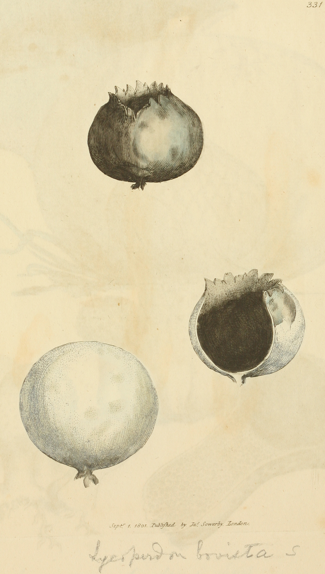 This is a plate from James Sowerby's Coloured Figures of English Fungi or Mushrooms.